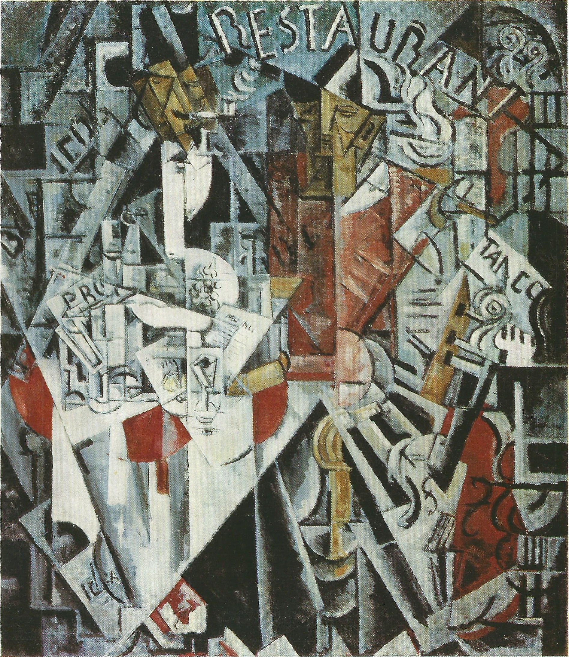 Nadezhda Udaltsova. Restaurant. 1915. Canvas, oil. 134x116. Russian Museum: ЖБ 1334 (In the museum's collection since 1928)